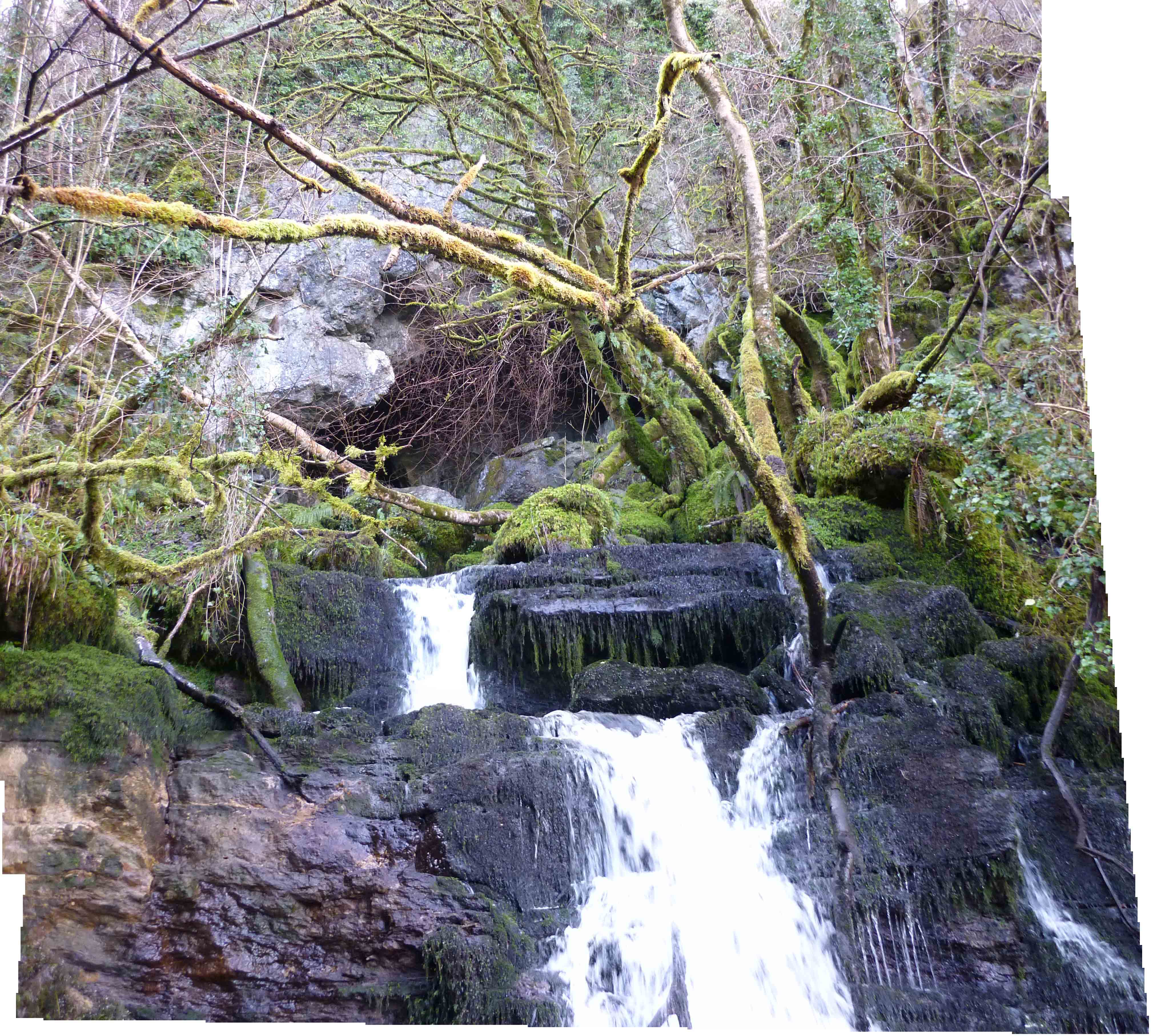 The Screenagh River Waterfall after it exits the Arch Cave which is a part of the Noon's Hole system in Boho. Situated in the area of Oobaraghan in the townland of Drumbeggar